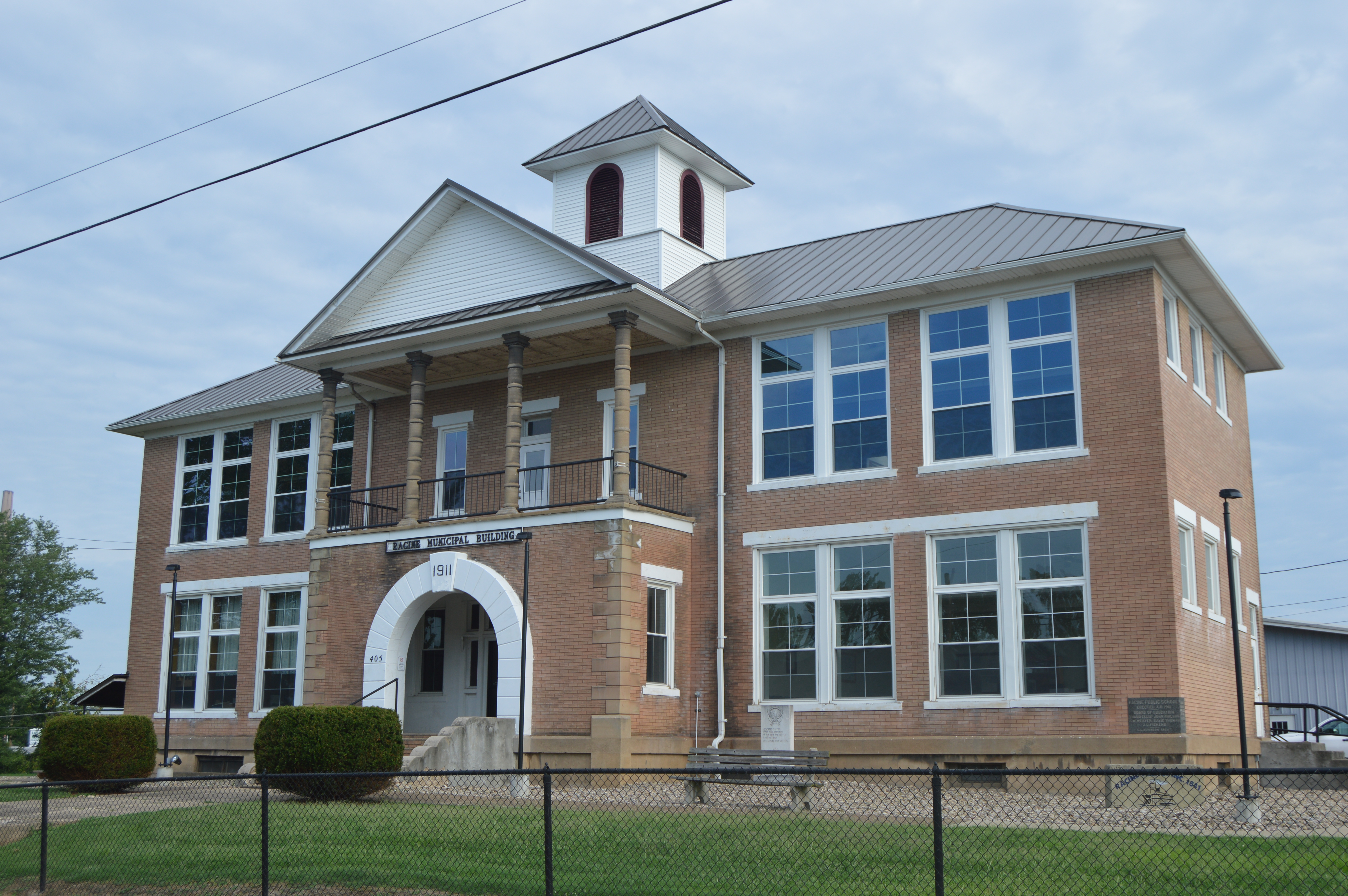 Front of the former Racine Public School (now the village hall), located at the intersection of Fifth (State Route 124) and Main Streets in Syracuse, Ohio, United States. It was built in 1911.